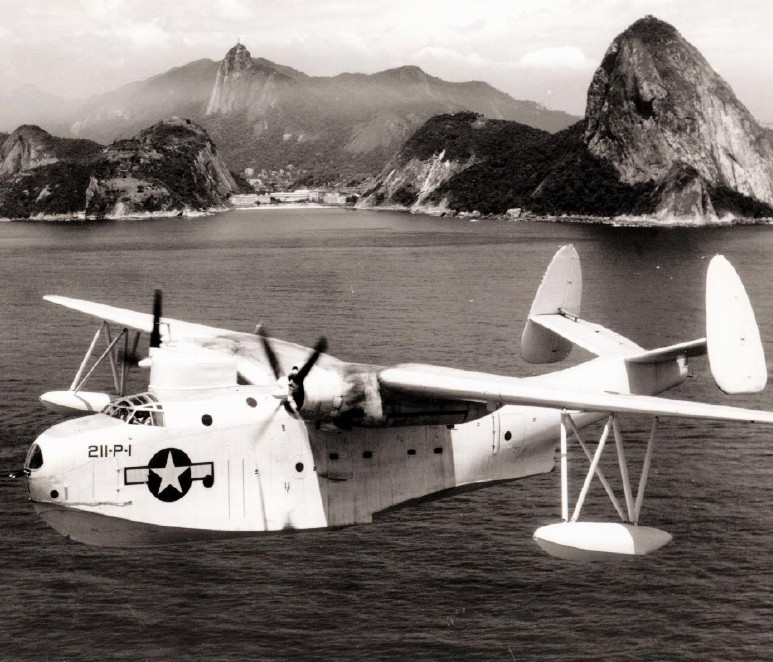 A U.S. Navy Martin PBM-3S Mariner of patrol bombing squadron VPB-211 off Brazil, 1943-1945.